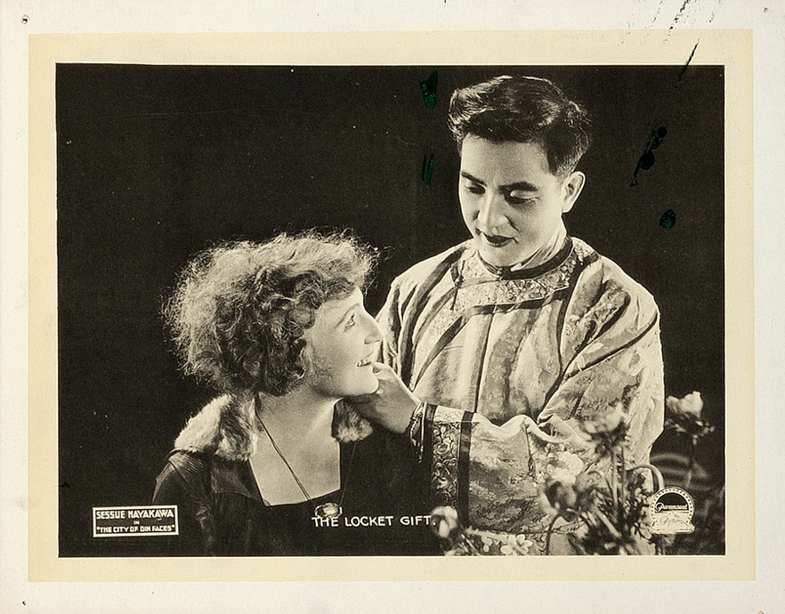 The City of Dim Faces is a lost 1918 silent film directed by George Melford and starring Sessue Hayakawa. It was produced by Famous Players-Lasky and distributed by Paramount Pictures. This is a lobby card for the film.